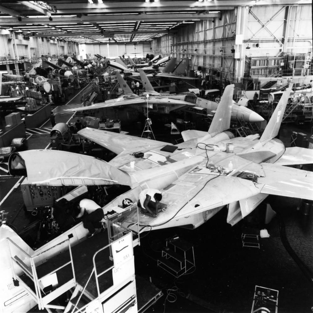 PictionID:42766345 - Title:Grumman F-14A production line, Naval Weapons Industrial Reserve Plant, Calverton, 1986 mfr 863853 [GHC via RJF] - Catalog:17_000128 - Filename:17_000128.tif - - --------Image from the René Francillon Photo Archive. Having had his interest in aviation sparked by being at the receiving end of B-24s bombing occupied France when he was 7-yr old, René Francillon turned aviation into both his vocation and avocation. Most of his professional career was in the United States, working for major aircraft manufacturers and airport planning/design companies. All along, he kept developing a second career as an aviation historian, an activity that led him to author more than 50 books and 400 articles published in the United States, the United Kingdom, France, and elsewhere. Far from “hanging on his spurs,” he plans to remain active as an author well into his eighties.-------PLEASE TAG this image with any information you know about it, so that we can permanently store this data with the original image file in our Digital Asset Management System.--------------SOURCE INSTITUTION: San Diego Air and Space Museum Archive